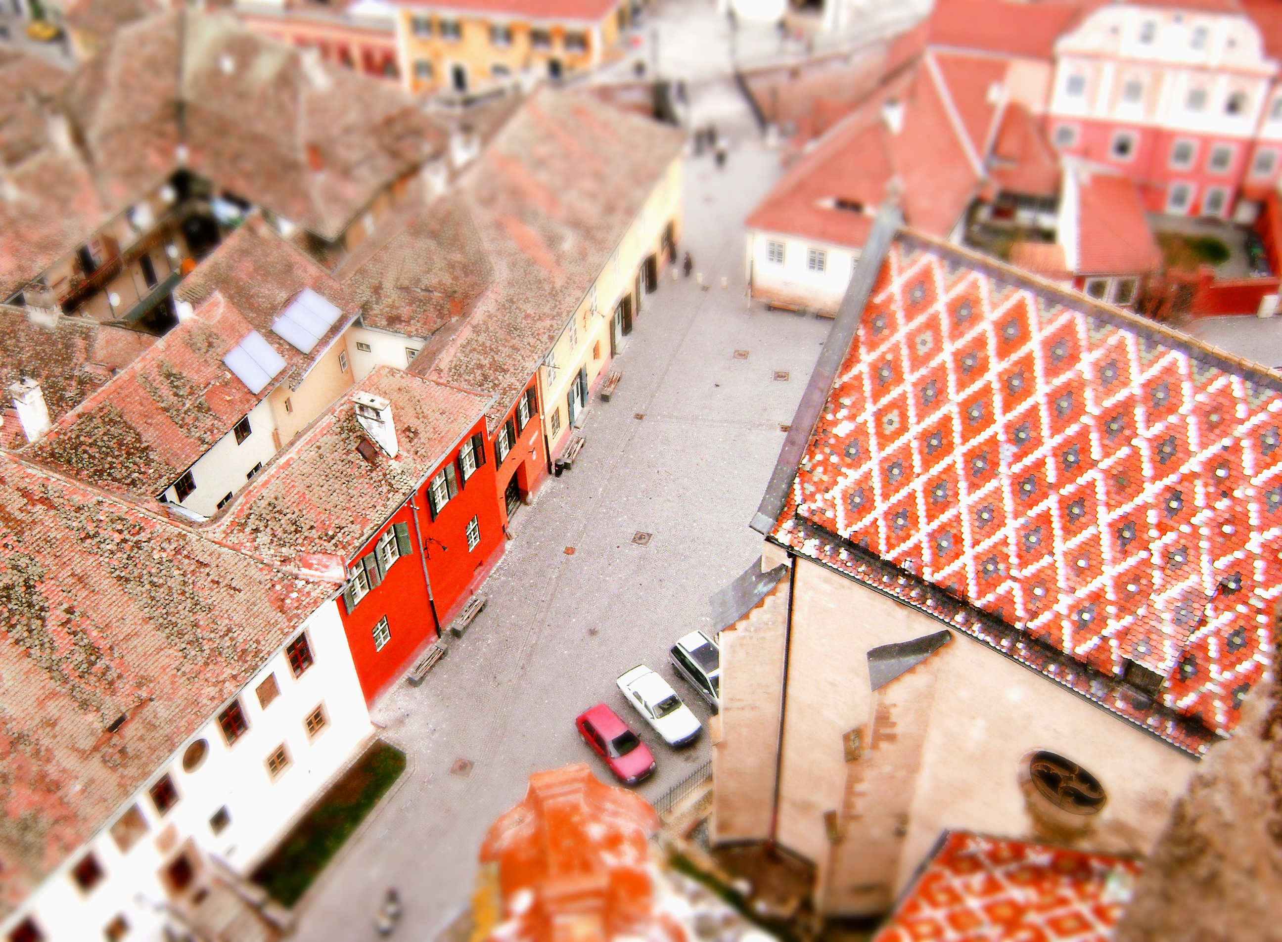 Sibiu - tilt shift effect